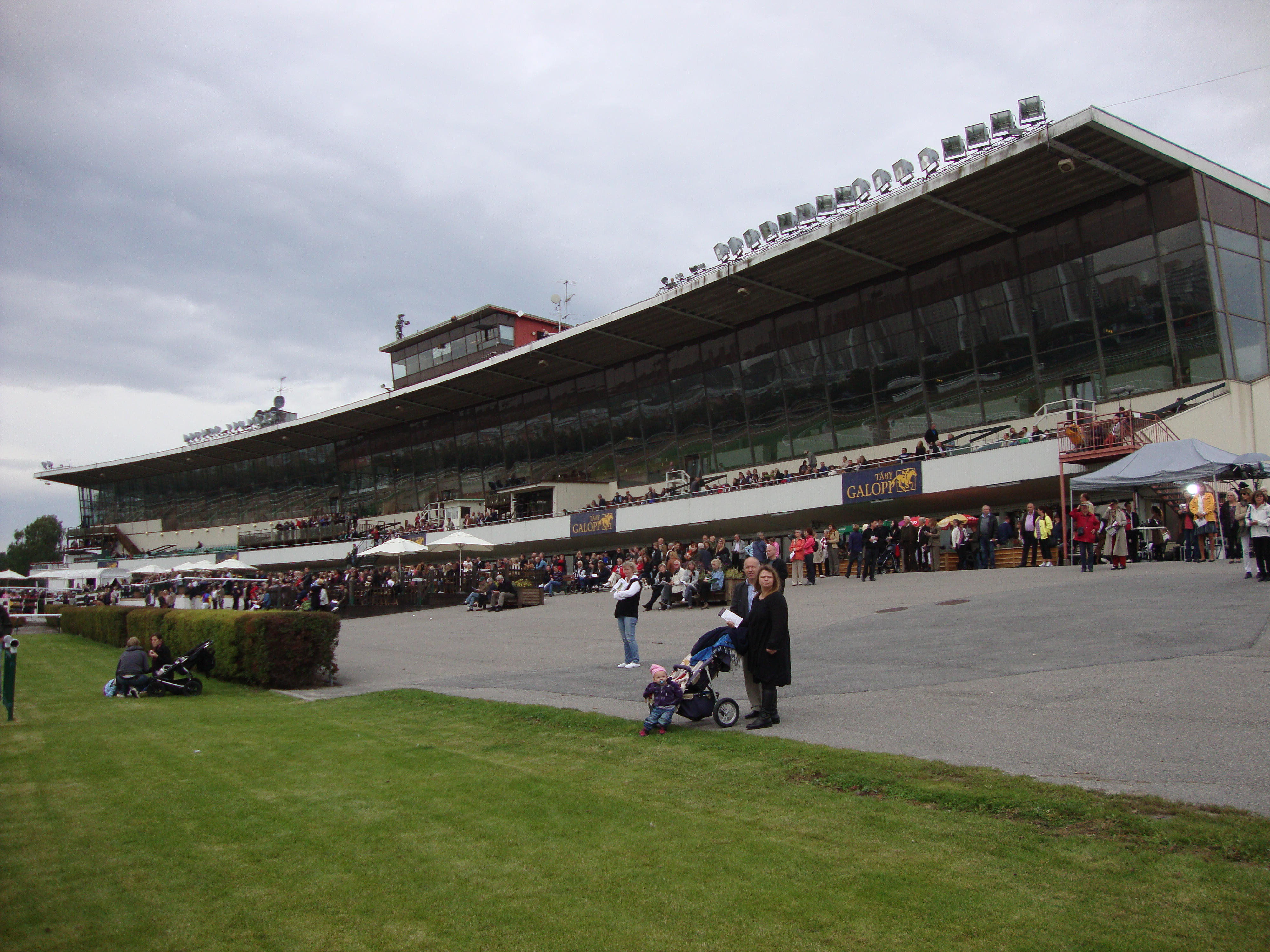 Main building of Täby Racecourse, a thoroughbred horse racing venue in Täby outside Stockholm, Sweden.